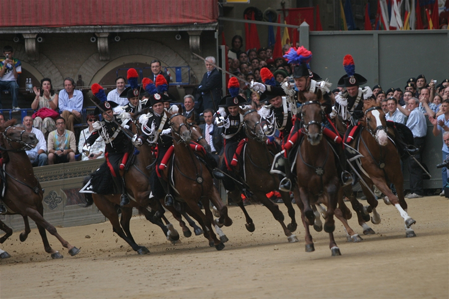 Carabinieri running on horses